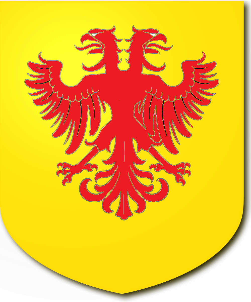 Albizi shield